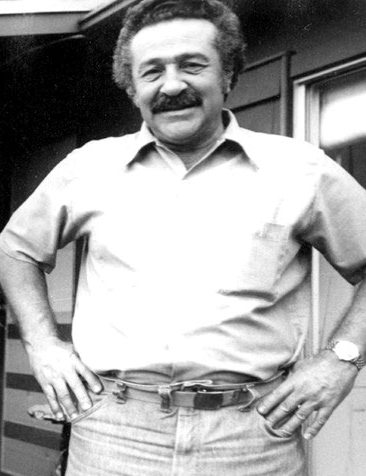 Nathan Oliveira on the back porch of his Stanford home, 1977.